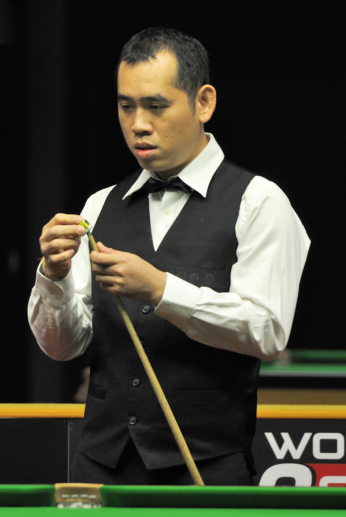 Picture taken in Berlin during the Snooker German Masters in 2014. Dechawat Poomjaeng.